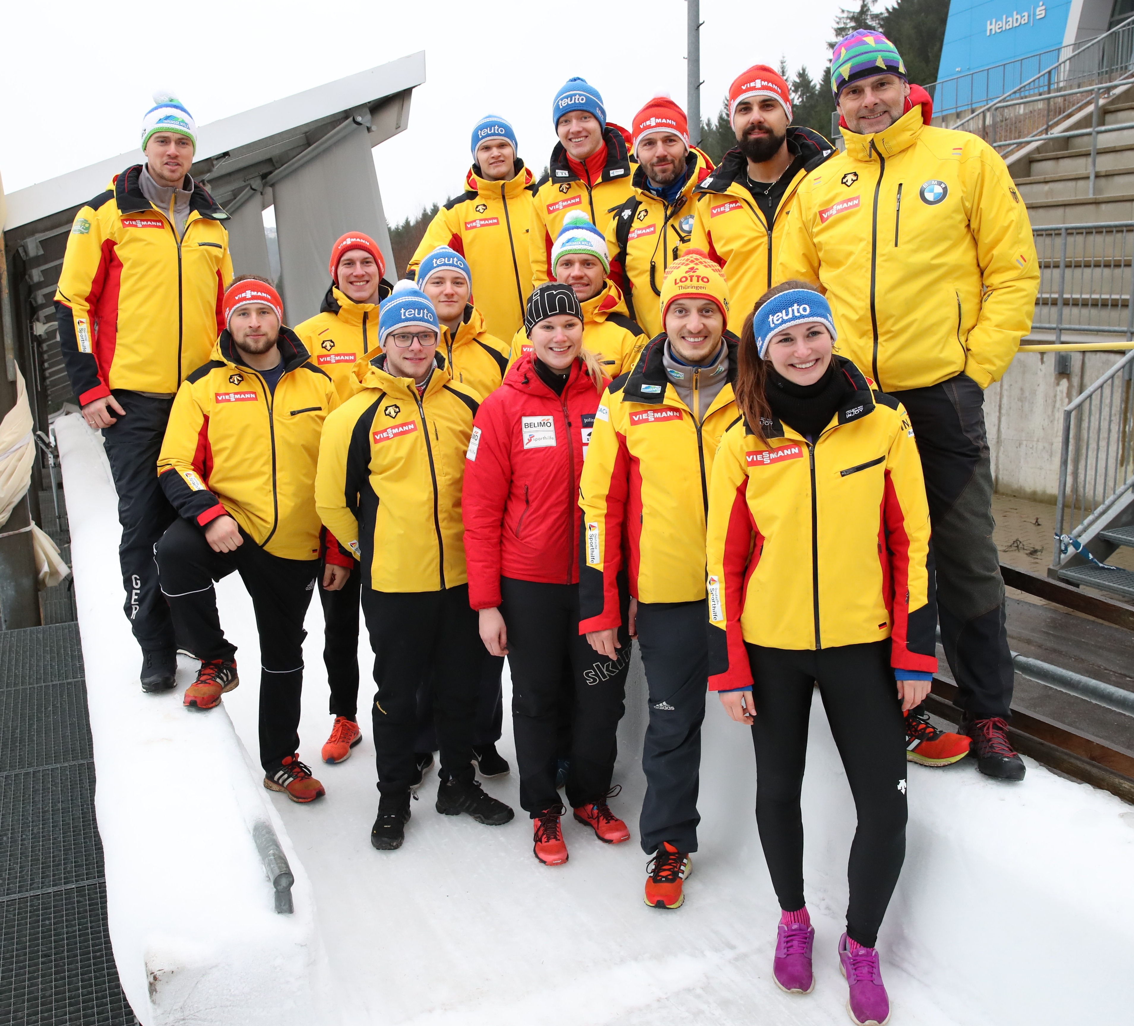 Group picture of Team Thuringia (together with Natalie Maag, Switzerland) at the German Luge Championships 2019 in Oberhof